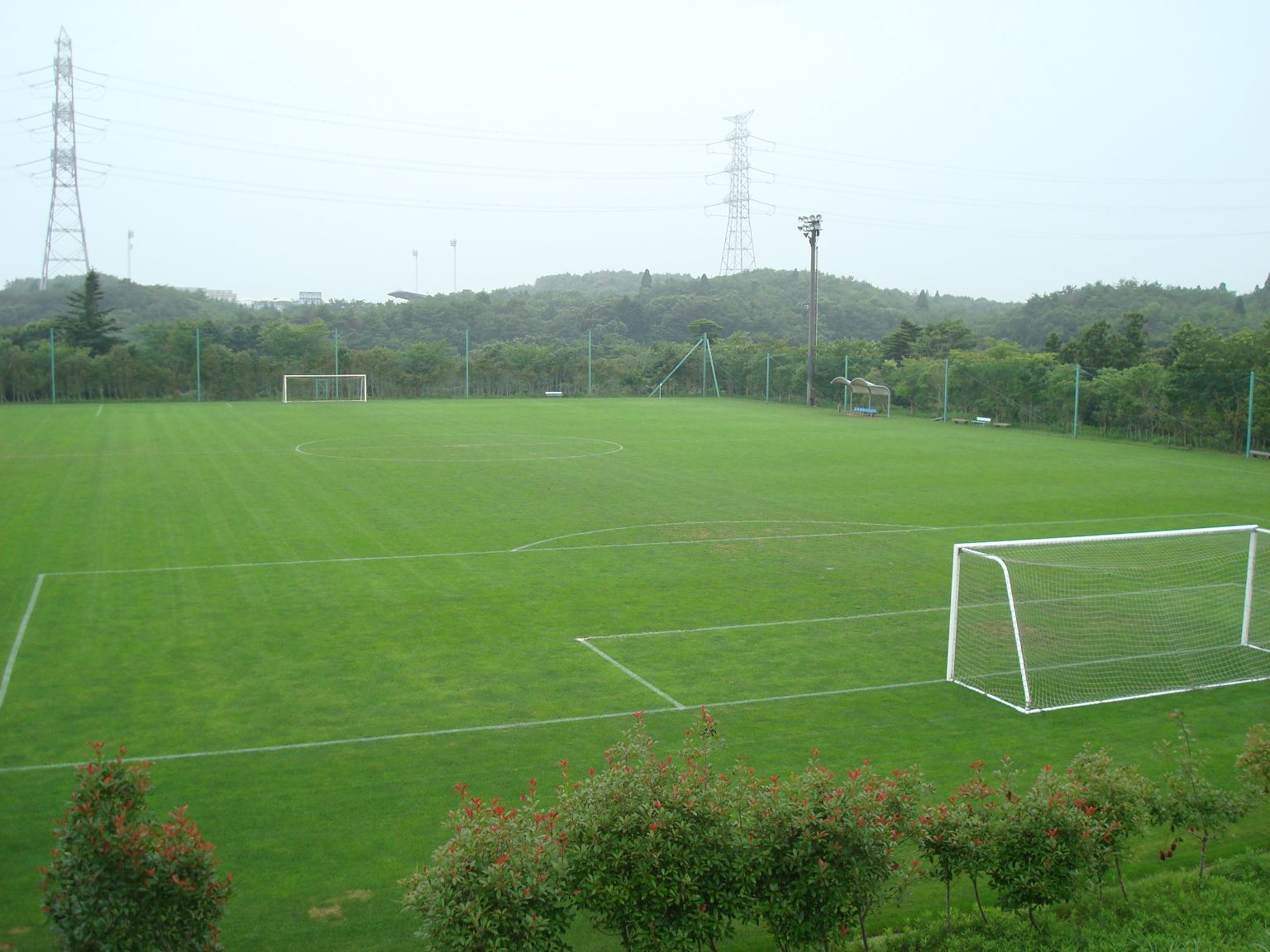 Football pitch no.1 (of 11) in J-Village national training center of Japan at Naraha, Fukushima, Japan.